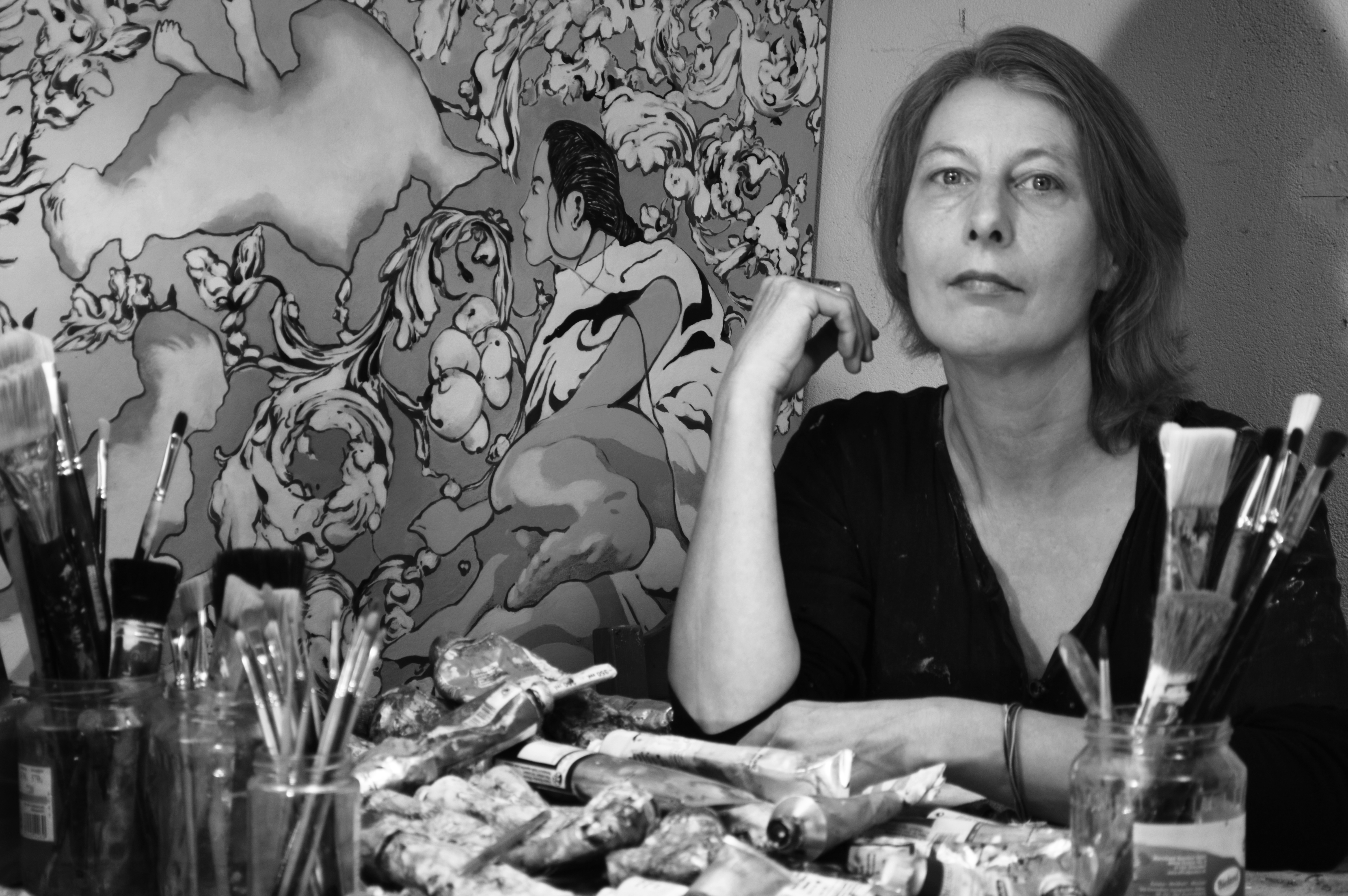 The artist Ruth Biller in front of one of her artworks.